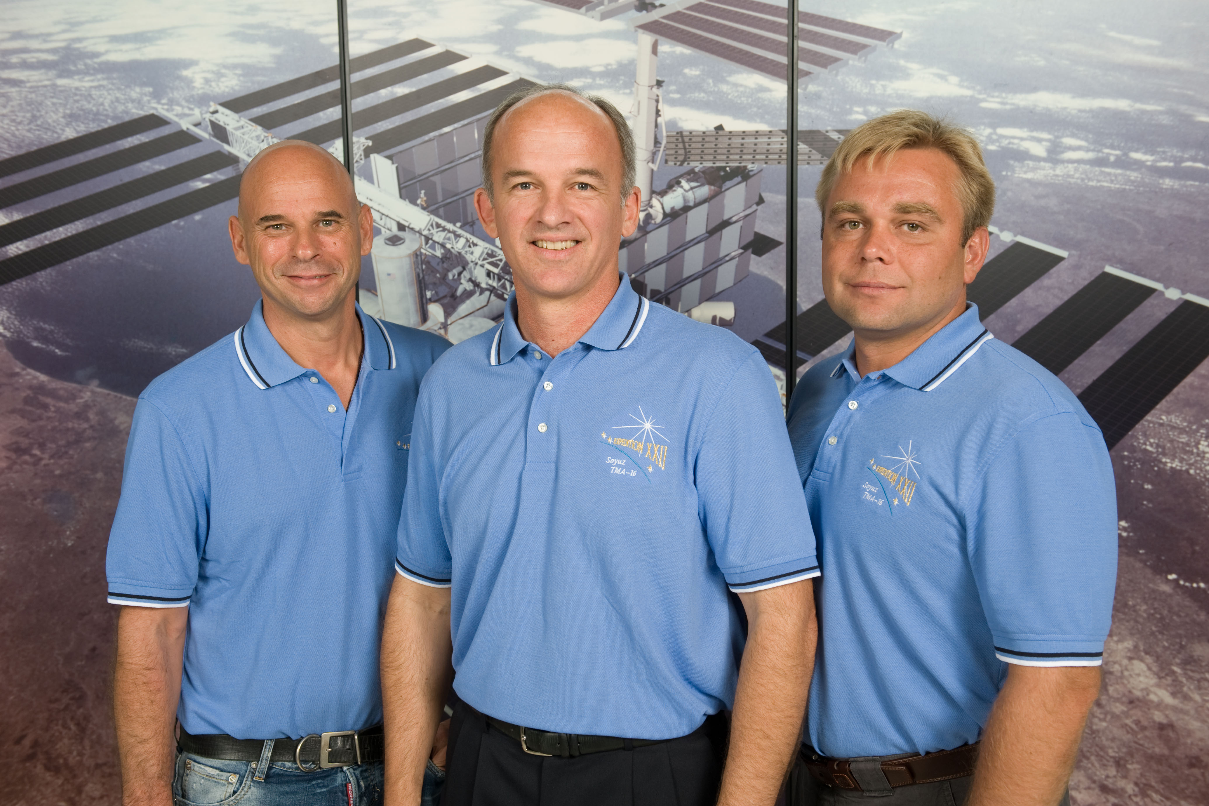 This is an informal portrait photographed shortly after the July 23 Expedition 21-22/Space Flight Participant press conference at the Johnson Space Center. From the left are spaceflight participant Guy Laliberté, astronaut Jeff Williams and Russian Federal Space Agency cosmonaut Maxim Suraev.